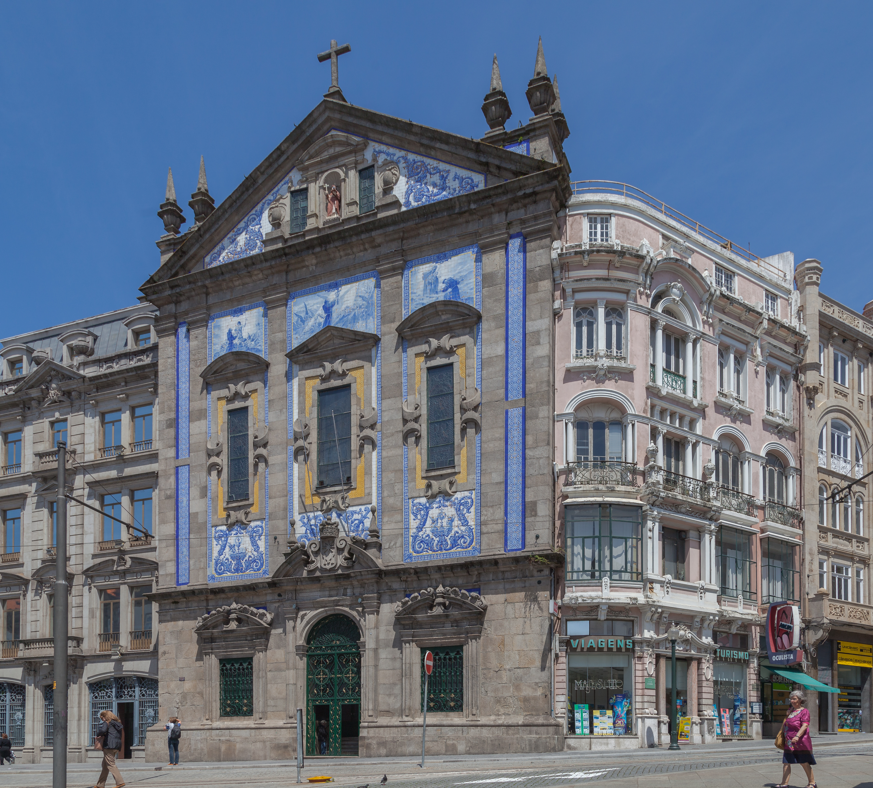 Church of the Congregados, Porto, Portugal